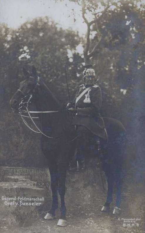 Field Marshal Count Haeseler (1836–1919)